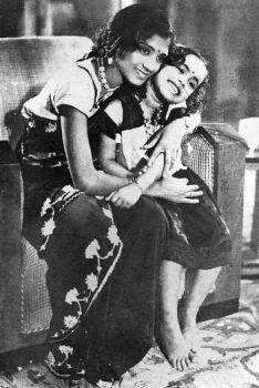 Screenshot from 1937 tamil film Balayogini. Depicts Baby Saroja and Balasaraswathi